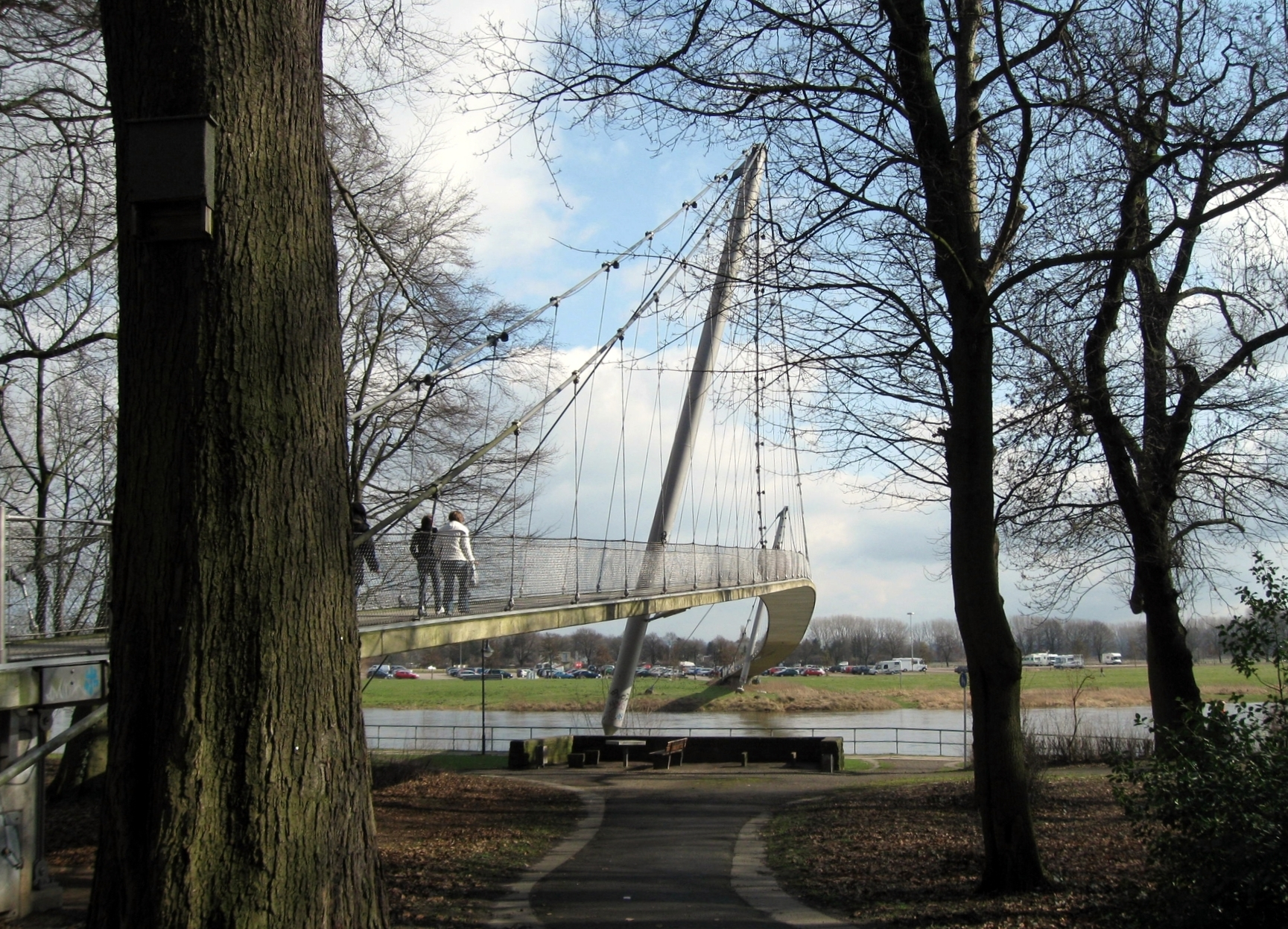 Brigde in Minden, Germany